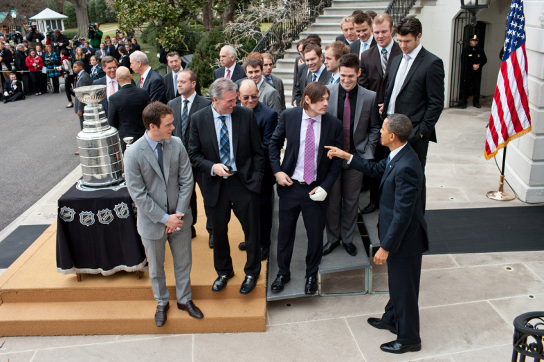 President Barack Obama talks with members of the Stanley Cup Champion Chicago Blackhawks following a ceremony to honor the team’s 2009-10 championship season on the South Lawn of the White House, march 11, 2011. (Official White House Photo by Pete Souza)